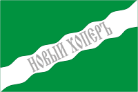 Flag of Novohopersk, Voronezh oblast, Russia